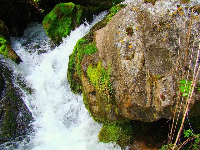 The left Bank of Teletskoye Lake, Altai